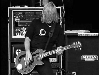 Brian Baker, playing with Bad Religion, live in the Netherlands, 1995